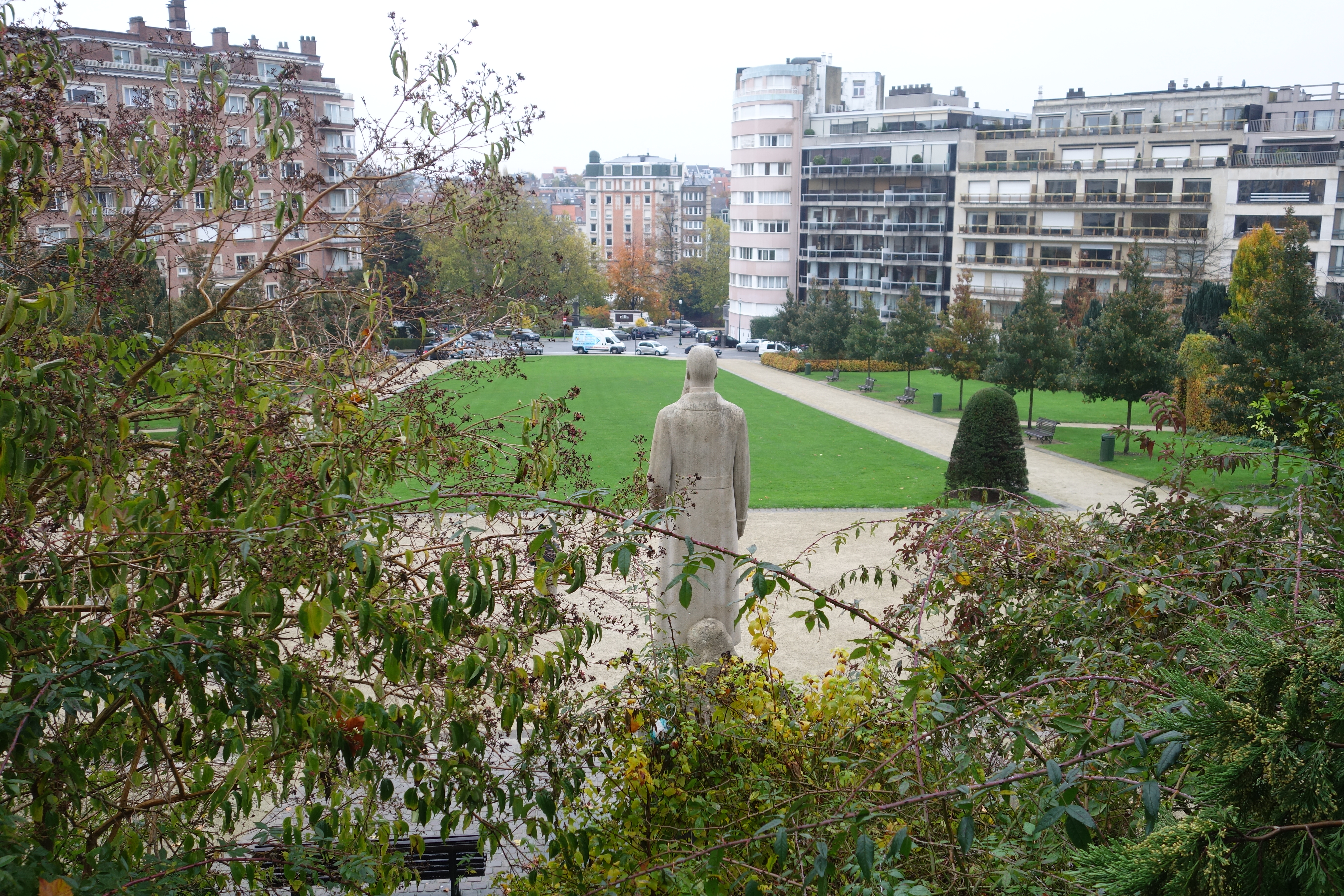 Koningstuin